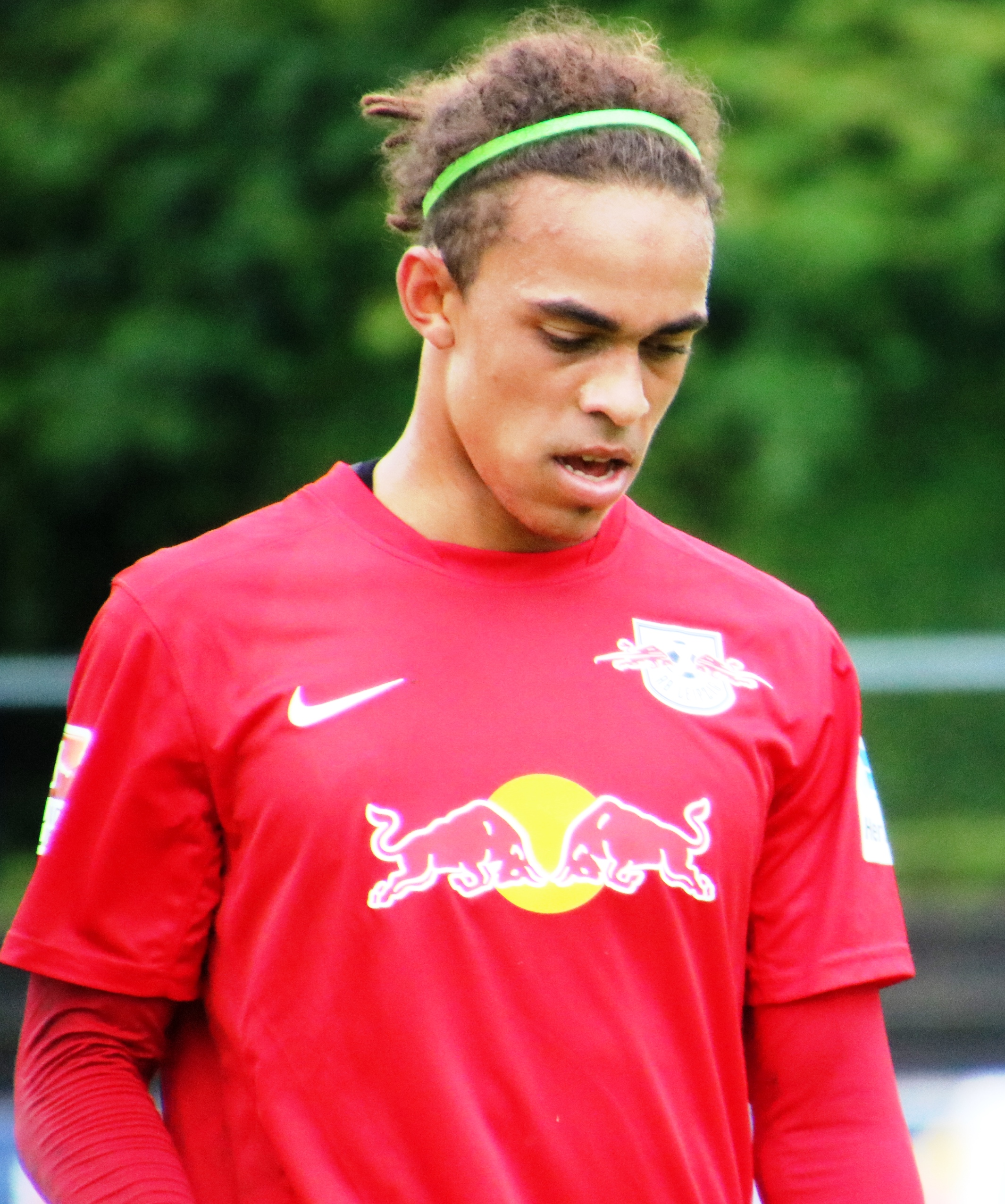 friendly match